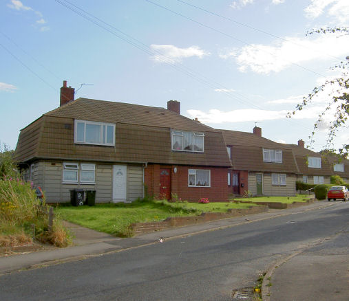 Cornish houses. Why are these called Cornish houses? See Prefabs in the United Kingdom